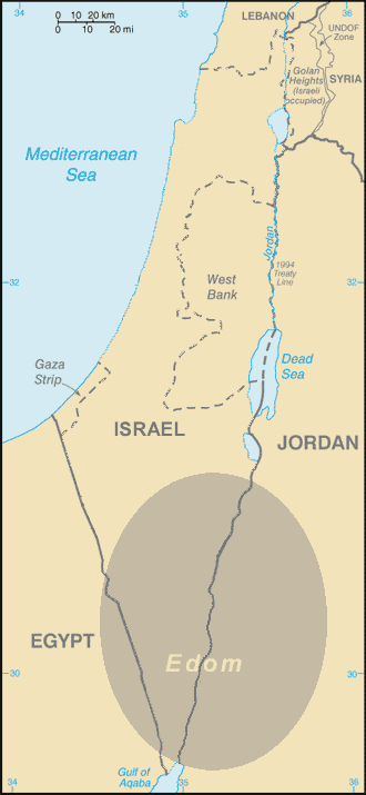 The ancient kingdom of Edom. The Land of Uz probably lay on the darkened area.